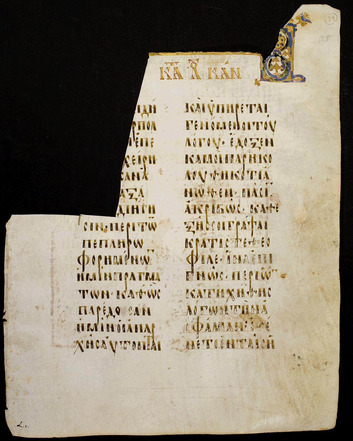 Folio 128 recto with the first page of Luke